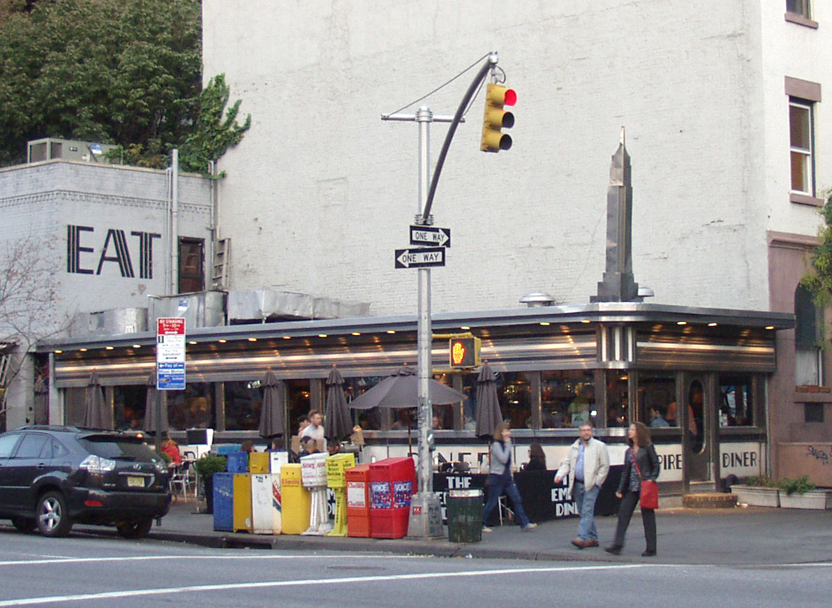 Looking east at Empire Diner at dusk of a sunny day